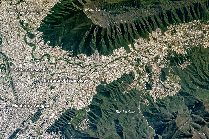 An astronaut aboard the International Space Station captured this view of the southeastern portion of Monterrey, capital of the Mexican state of Nuevo Leon. Mount Silla—also referred to as Cerro De La Silla or Saddle Hill—is an iconic landscape feature of the region. When viewed from the west, the ridges and peaks resemble a saddle. Mount Silla has been declared a natural monument under the guidelines of the World Commission on Protected Areas. The Monterrey metropolitan area sits 1300 meters (4,200 feet) below the steep, forested flanks of the mountain. Monterrey straddles several large rivers flowing out of the mountains. The Santa Catarina River cuts through the older parts of the city (such as Monterrey Antiguo). Major highways follow the river to the nearby cities of Guadalupe, San Pedro Garza, and Santa Catarina. Rio La Silla (Chair River) flows from the northern Sierra Madre Oriental mountain range and joins the Santa Catarina just outside the top left corner of the image. The semi-arid climate keeps these rivers dry for much of the year. Nuevo Leon state is home to the third largest economy in Mexico thanks to Monterrey’s extensive manufacturing facilities and infrastructure. The size and reputation of Monterrey was built by the concentration of national and foreign industries; various metal products, chemicals, textiles, plastics, and glass are all made here. The city is also home to the massive Bancomer Stadium and one of Mexico’s largest universities, the Monterrey Institute of Technology and Higher Education.